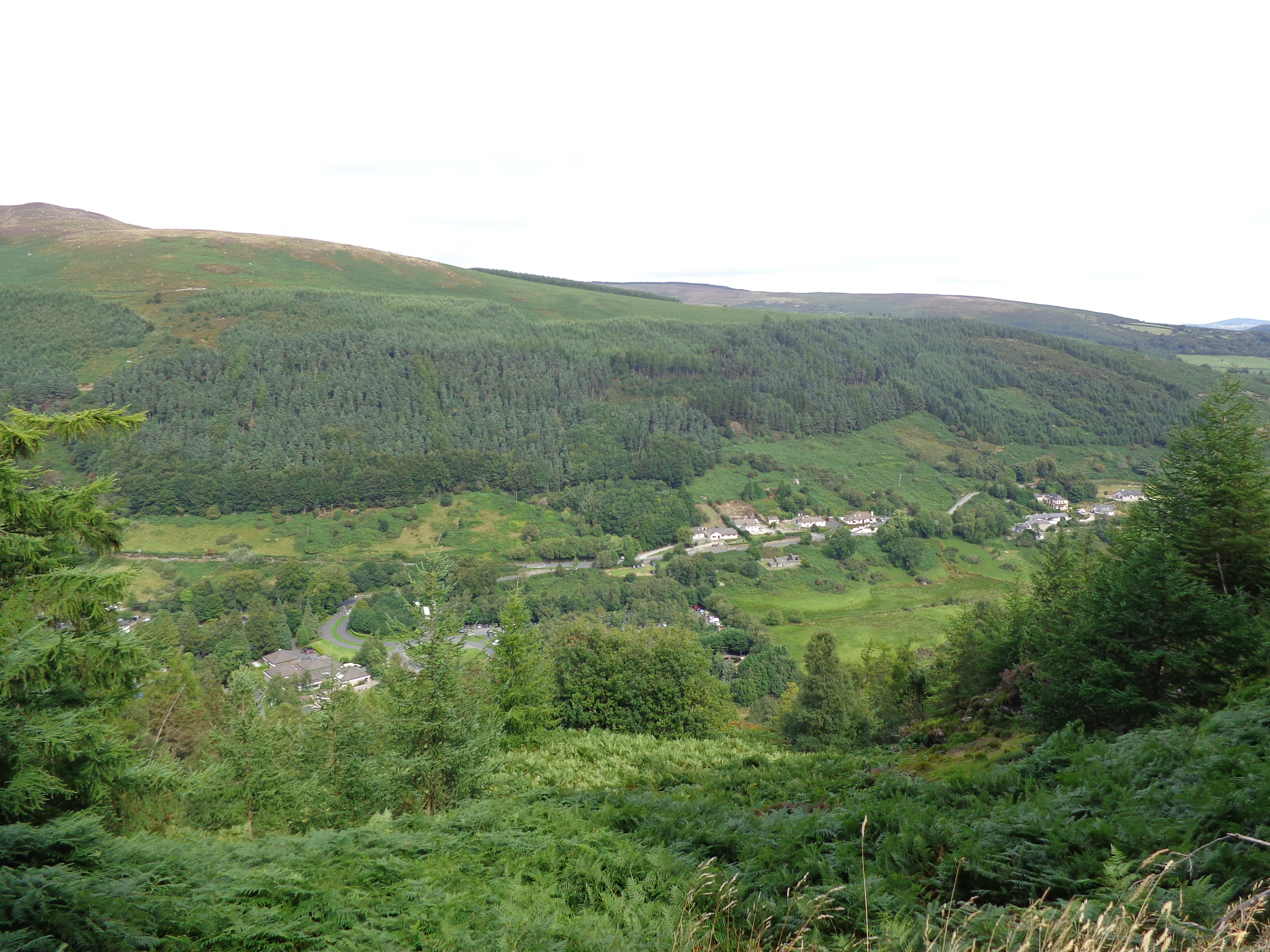 Glendalough Valley